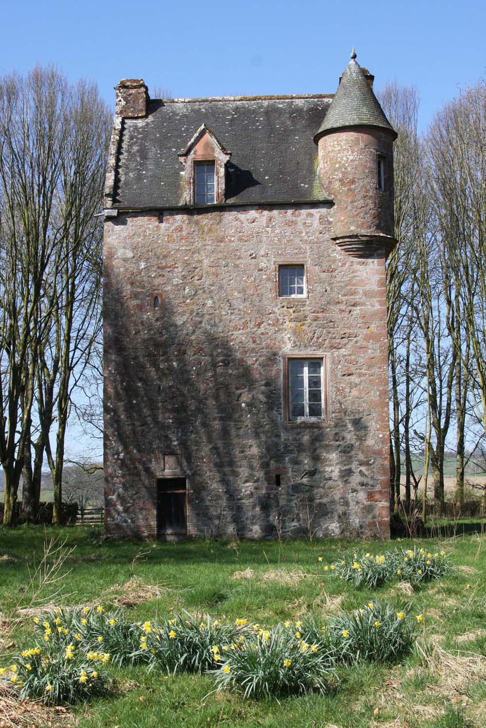 Fourmerkland Tower. Built in 1590, on older foundations, it is well hidden in the wood. See archaeological notes here